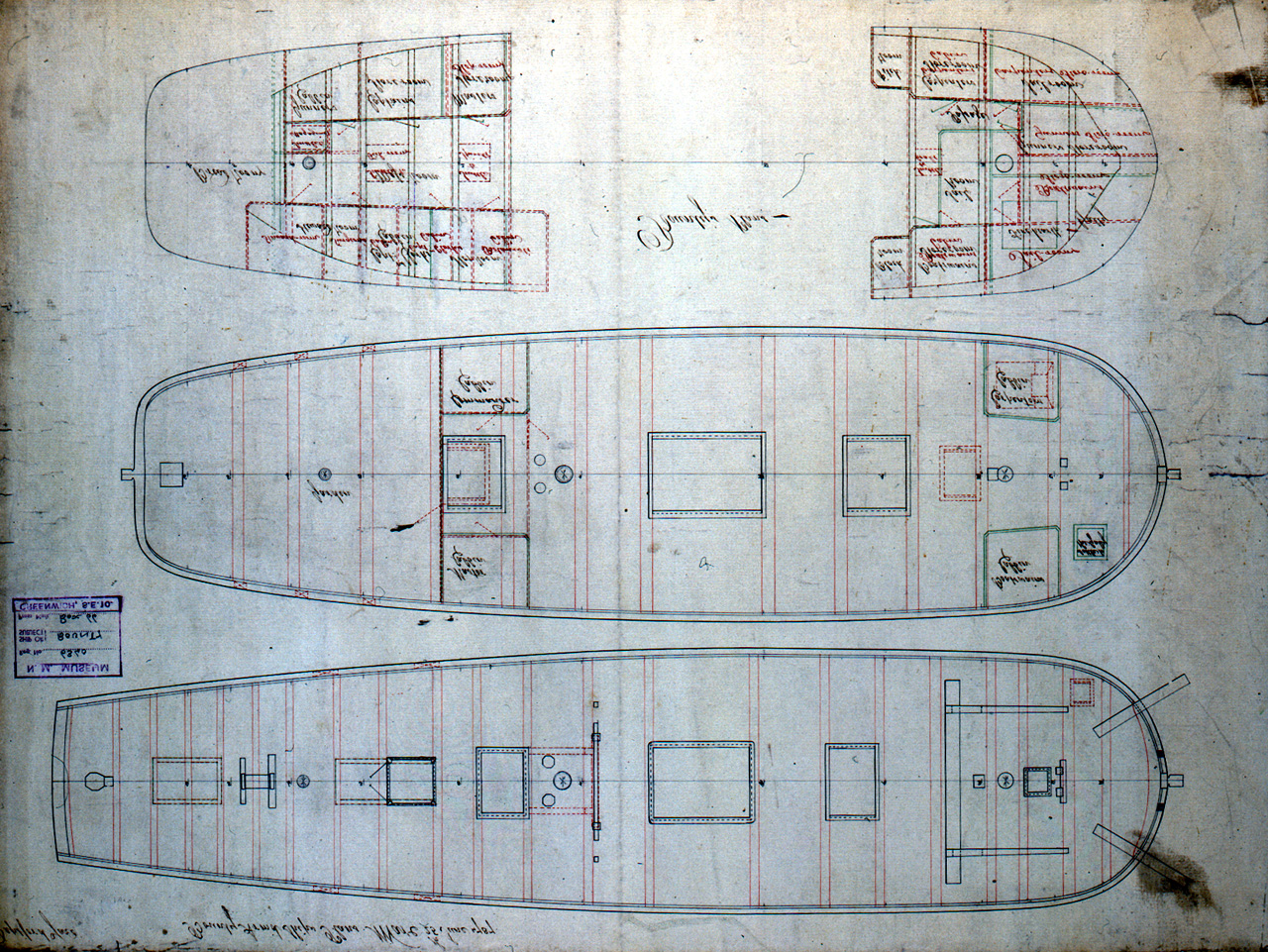 Bounty (ex-'Bethia') Deck plans - upper deck, lower deck and hold - of the 'Bounty' (ex-'Bethia'), including the disposition for carrying breadfruit plants in pots in the great cabin and other accommodation; dated 'Received...20th November 1787'. This reference (ZAZ6668) in fact comprises a set of drawings not as yet distinguished by part numbers of which the most up-to-date electronic image references are as follows; J2027 – External sheer (starboard broadside)and profile J2028 – Internal sheer and profile (i.e. it also shows the breadfruit plant racks and companionways in red) [old image D3970-1] J2029 – An explanatory keyed detail of the plan arrangements for plants, in section and profile as above J2030 –Upper, middle and lower deck plans without plant racks ut with the cabin marked as 'Garden' [old image D3970-2] J2031– Upper middle and lower deck plans as fitted with plant racks for 629 pots [old image D3970-3] Note that J2032 is also a dyeline copy draught of the 'Bounty' launch plans (not yet cataloged on the system but ref. no ZAZ8748). It is an enlarged but otherwise identical copy of the the engraving by Mackenzie originally published in Bligh's published account of the 'Bounty' voyage ('A Voyage to the South Sea...', 1792). unavailable